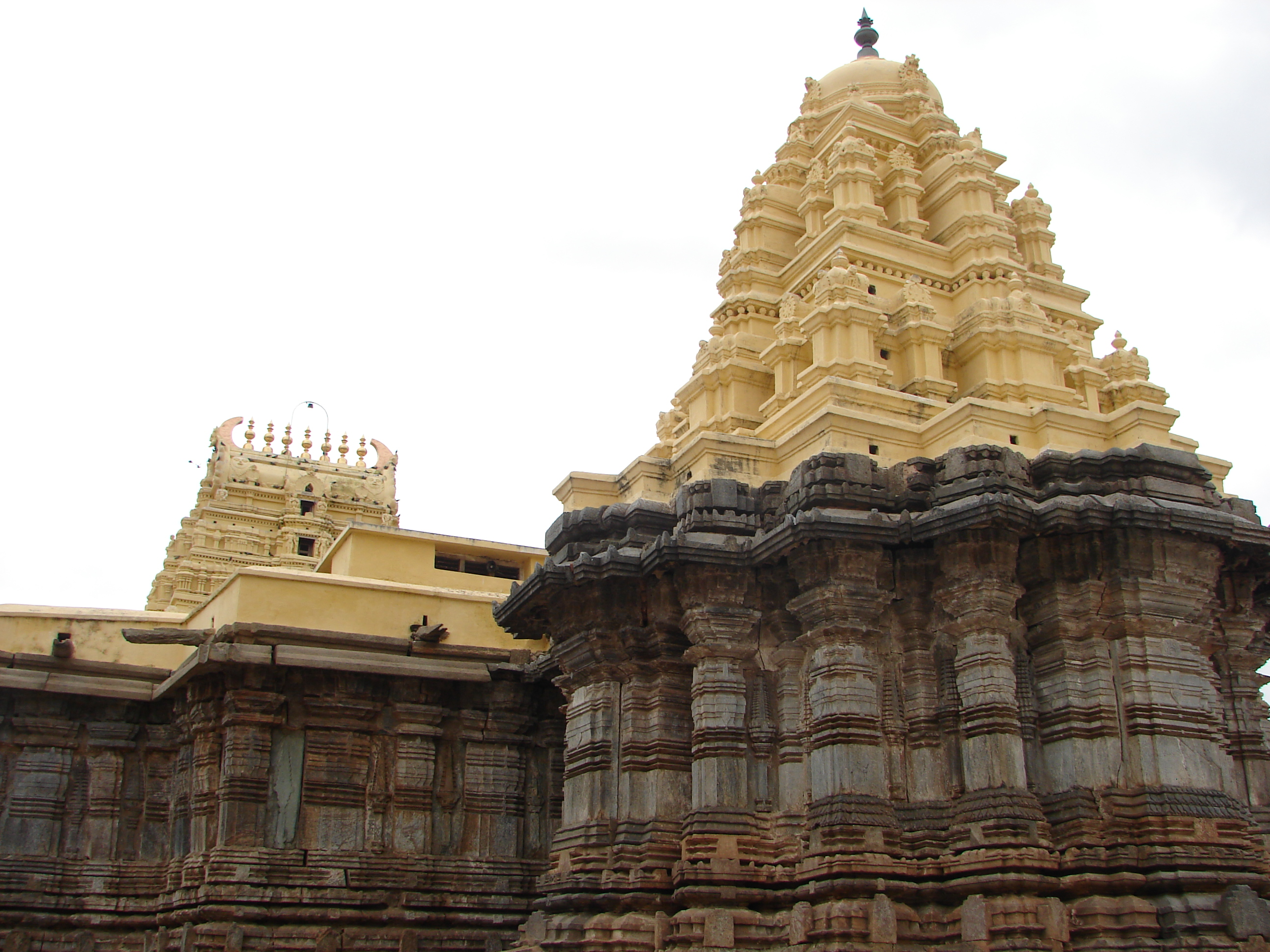 This photograph was taken by me at the Saumyakeshava temple in Nagamangala, Mandya district, Karnataka state, India. The stellate shrine and closed mantapa (hall) are a 12th century A.D. construction and is attributed to the Hoysala Empire. The outer gopura (tower on gate) seen here is a later Vijayanagara Empire (14th-16th century) addition. The austere nature of the shrine and mantapa outer wall, lacking in relief and ornamental work is considered unusual for Hoysala architecture.